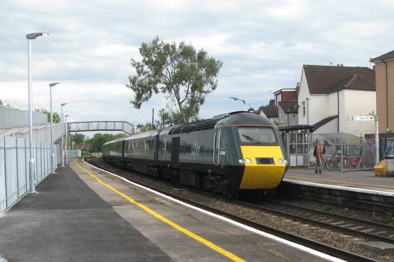 Great Western Railway power cars 43094 and 43194 with a four-car ';Castle Class' train from Taunton to Cardiff passing through Stapleton Road station in Bristol.